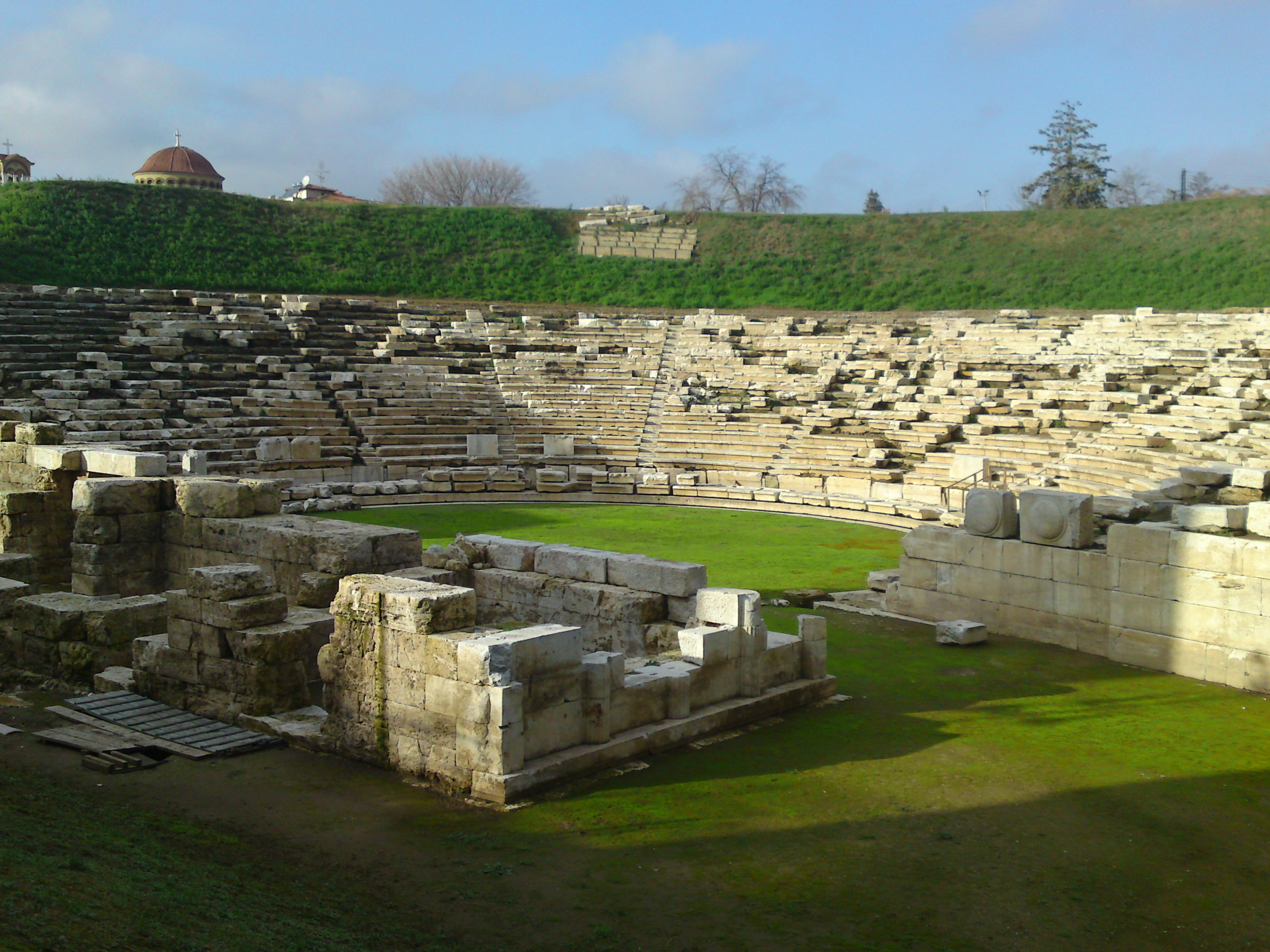 Ancient theatre of Larisa